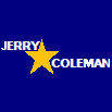 Source: I, the Silent Wind of Doom made this picture on MSPaint to serve as a retired number on the San Diego Padres page.